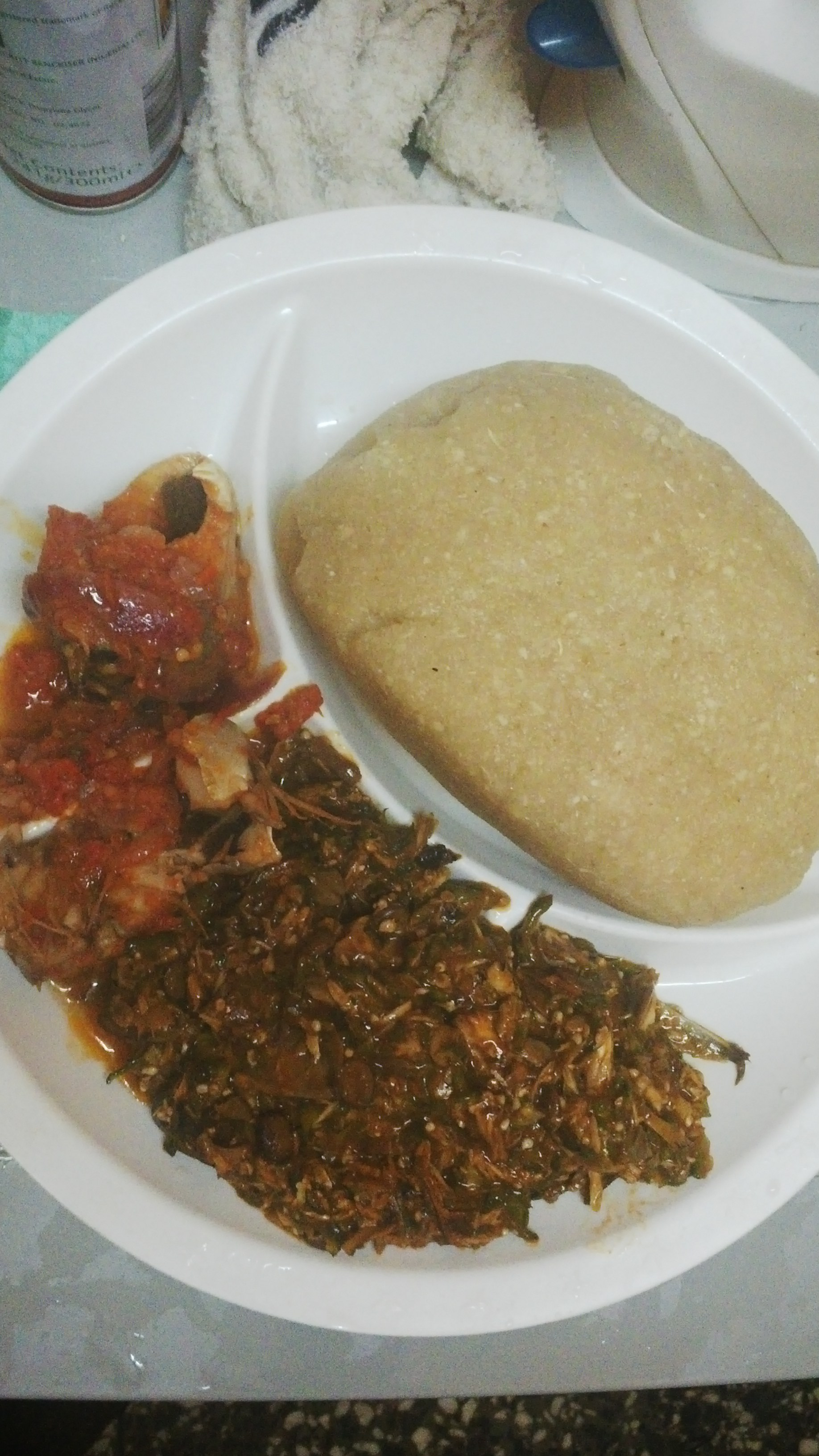 Eba is a solid paste made from grained cassava This is an image of food from Nigeria